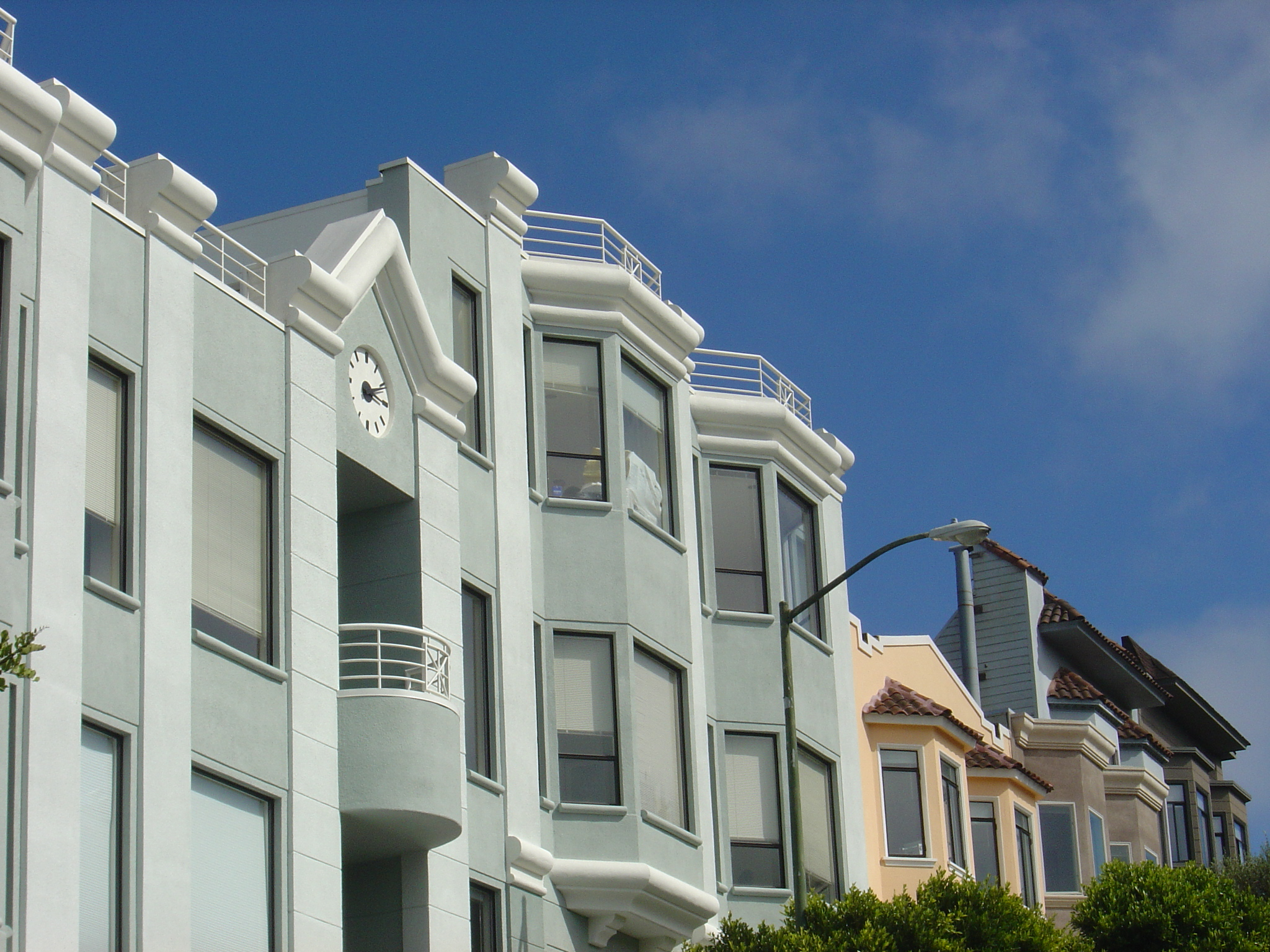 Bay windows in San Francisco, California.